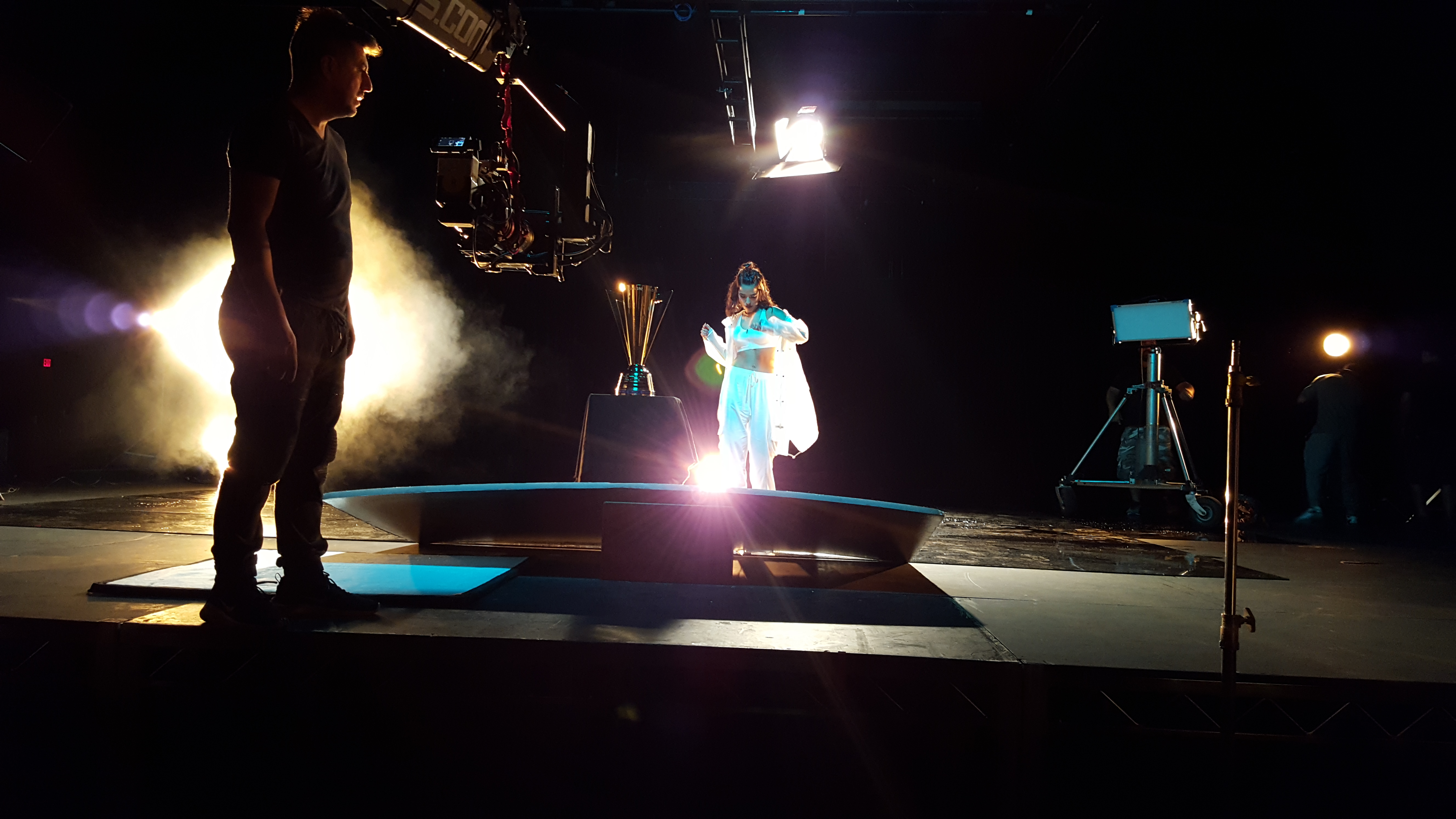 GALE performs for the cameras at the filming of the music video for "Levántate"